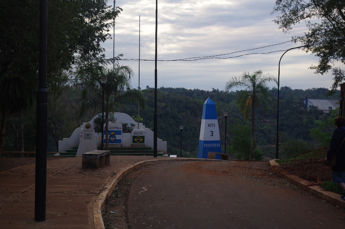 Three borders mark in Argentina